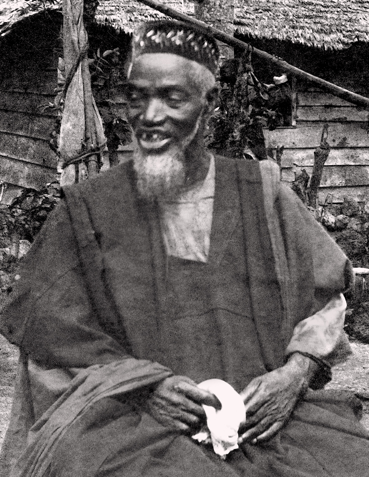 The only known photograph of Bai Bureh, discovered in 2013 by former Peace Corps Volunteer Gary Schulze who pesented it to the people of Sierra Leone.